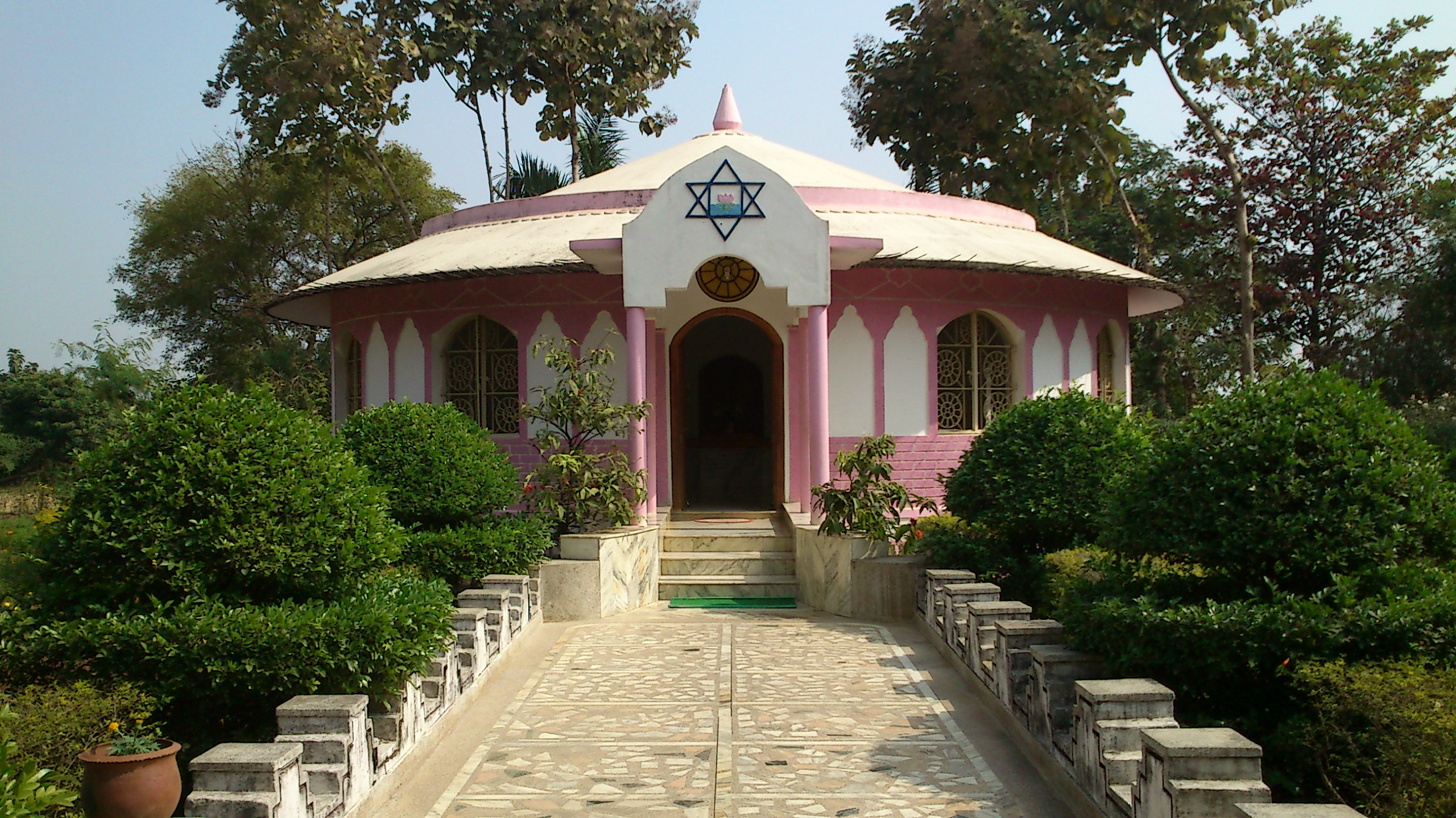 The sacred relics of Sri Aurobindo and The Mother installed here.